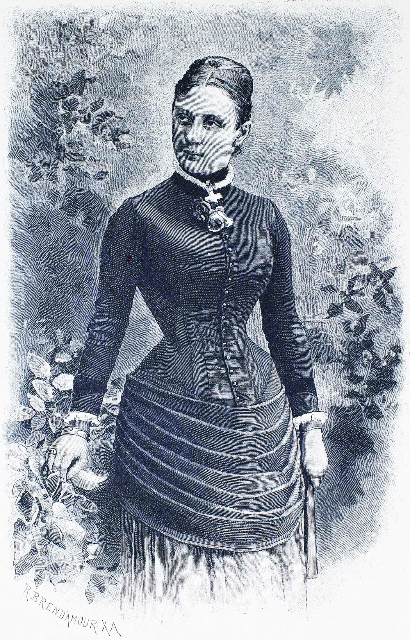 no caption